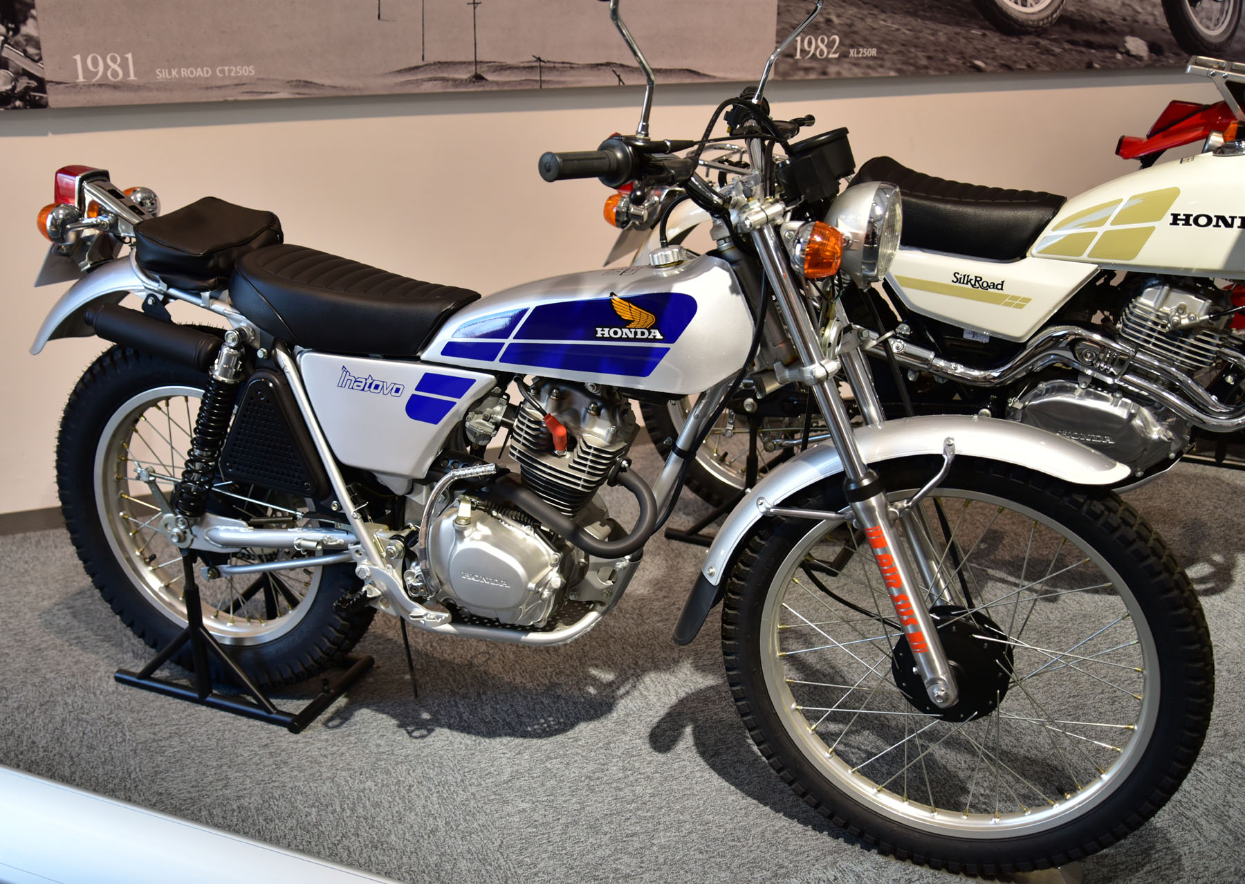 Honda TL125S Ihatovo (1981)